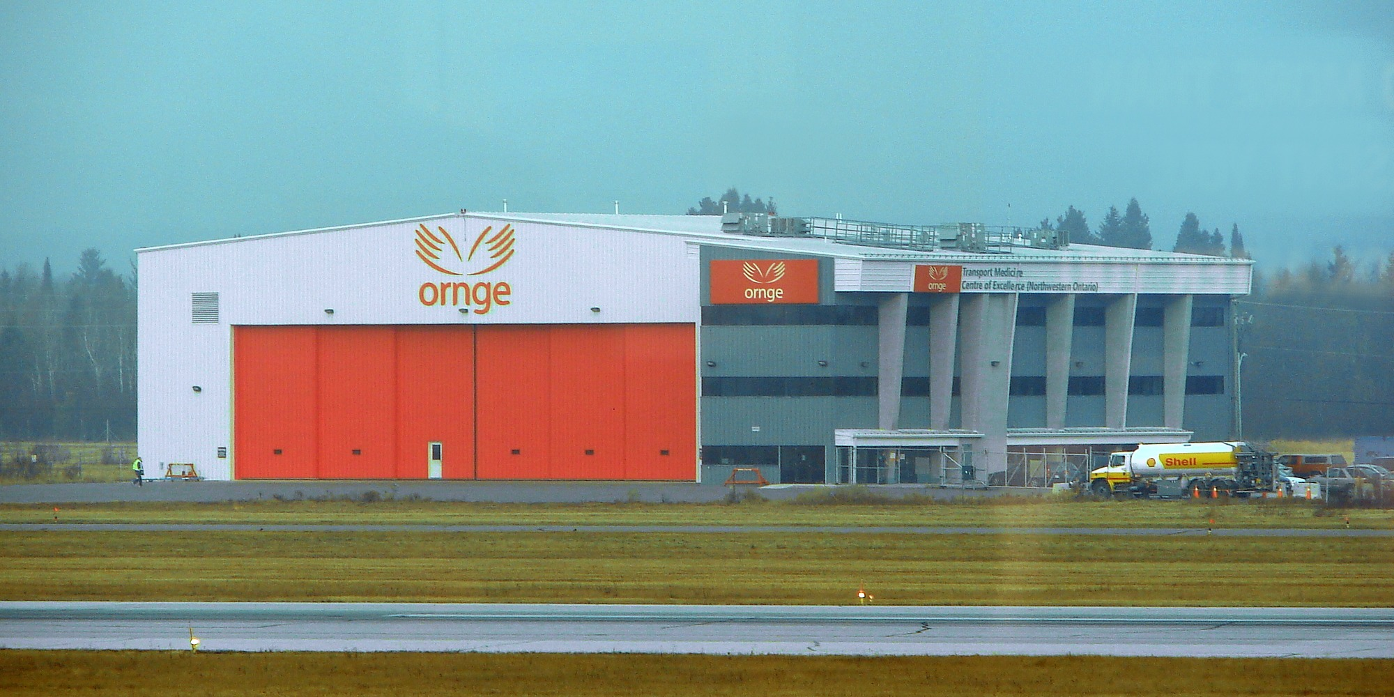 Ornge hangar, Thunder Bay Airport, Thunder Bay, Ontario, Canada